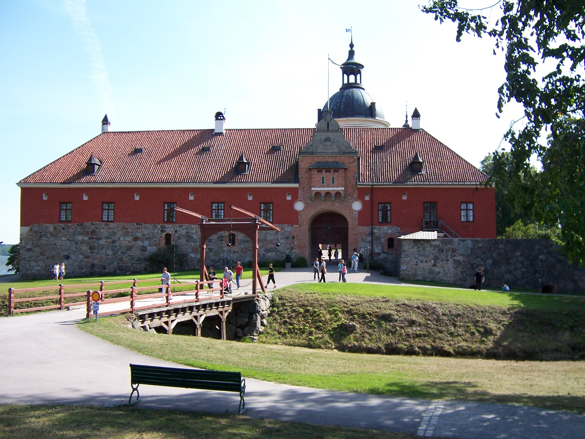 Entrance of Gripsholm Castle (Sweden) own work, all rights released